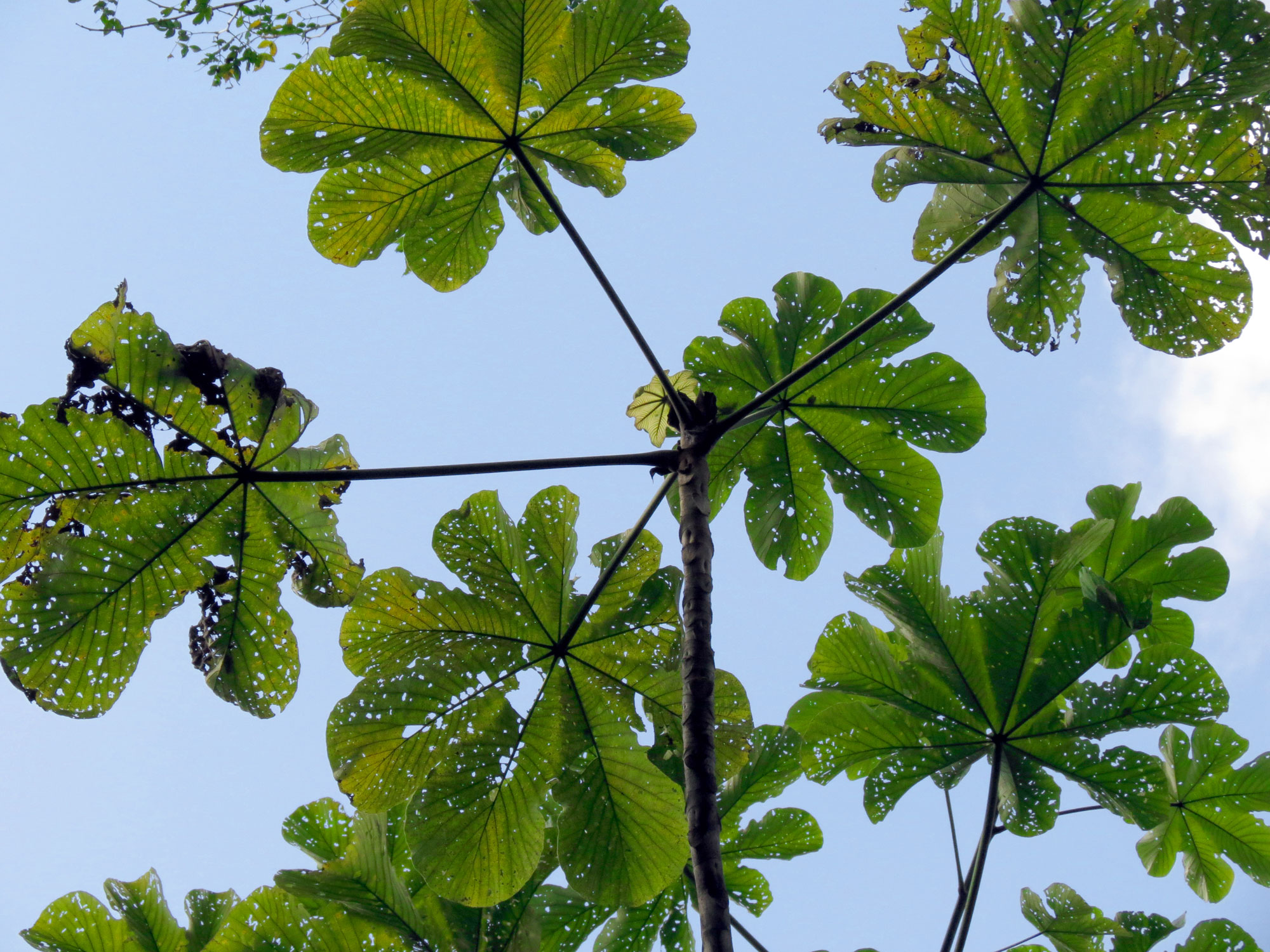 Cecropia longipes. Along Pipeline Road, Soberania National Park, Panama. 23 January 2012. Thanks to Andres Hernandez S. for the id!